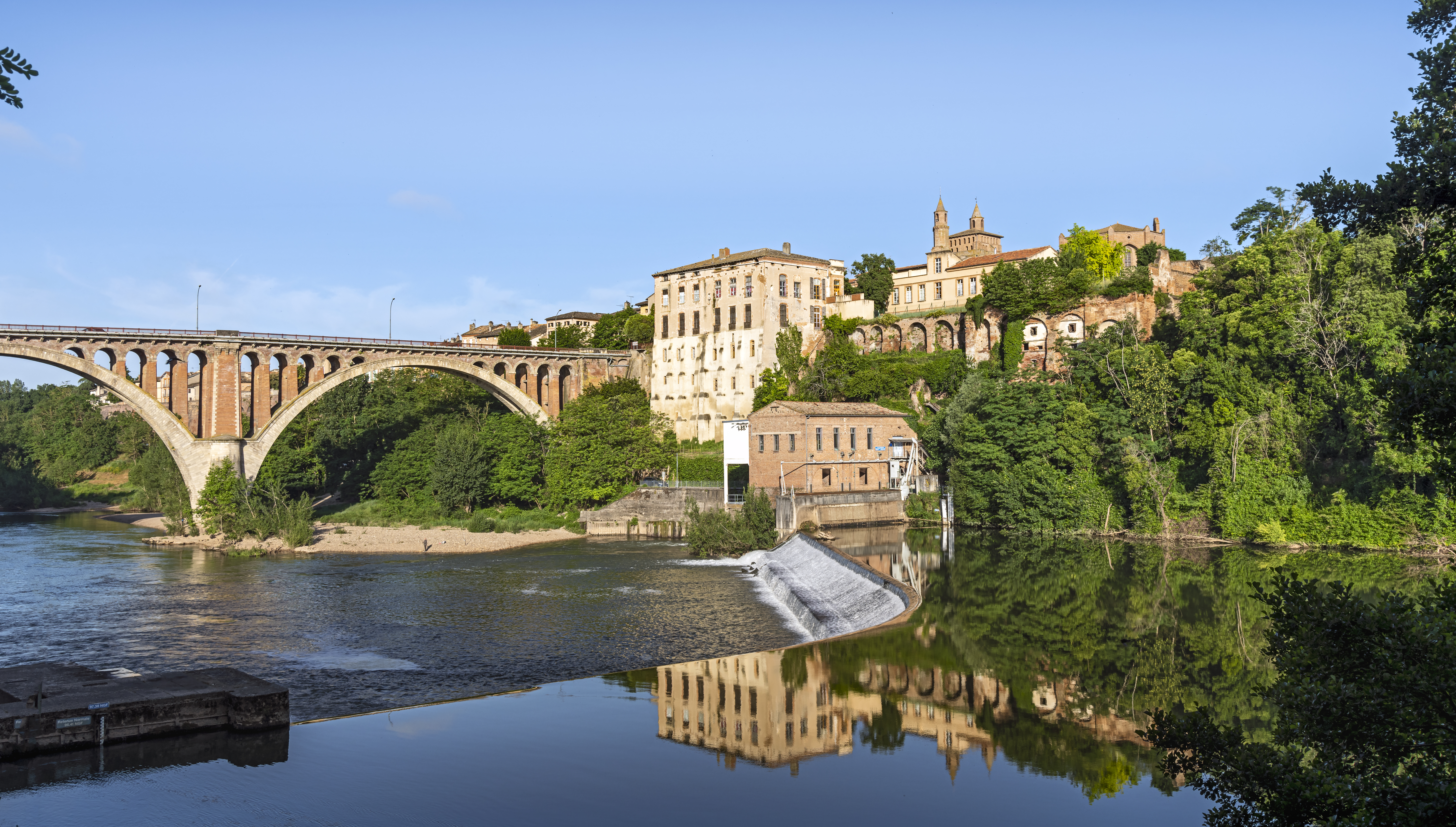 The historic center of Rabastens on the banks of the Tarn river.